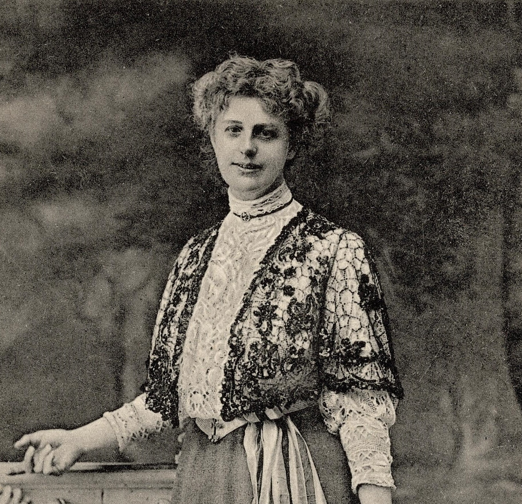 twl 2002 23Georgina Brackenberry